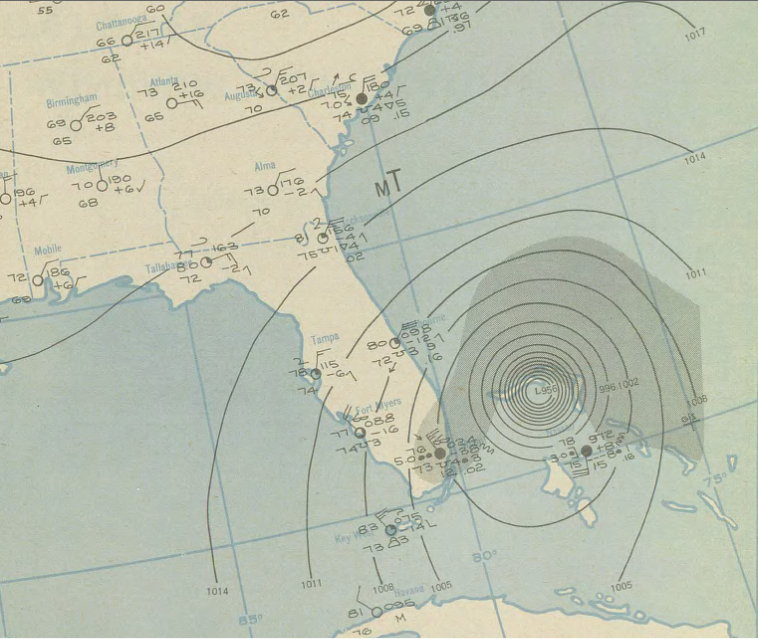 Surface weather map showing the September 17, 1947, hurricane approaching South Florida